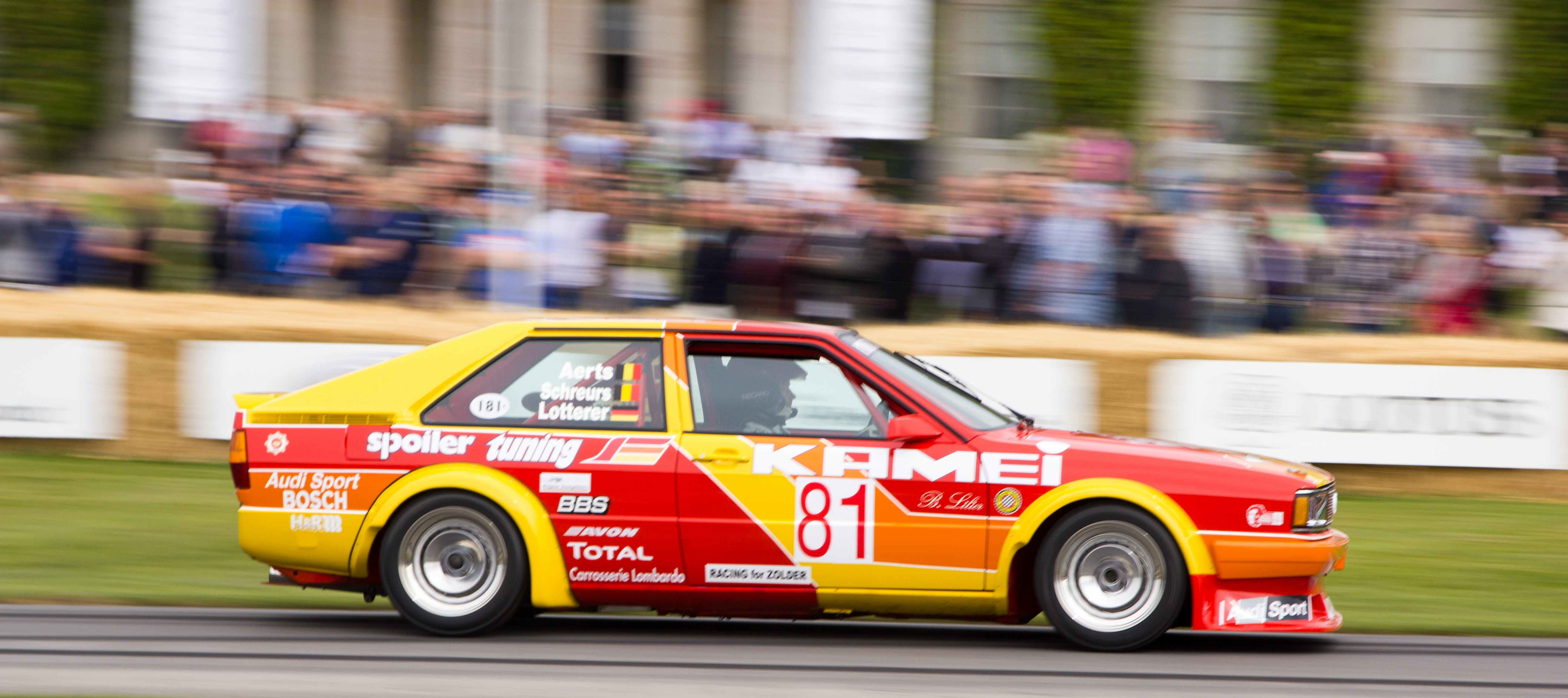 An Audi Coupé B2 Group 2 Touring Car at the 2014 Goodwood Festival of Speed.